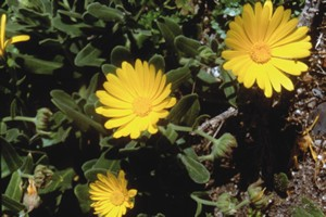 According to IUCN/SSC specialists this is one of the most endangered species of island floras in the Mediterranean area.